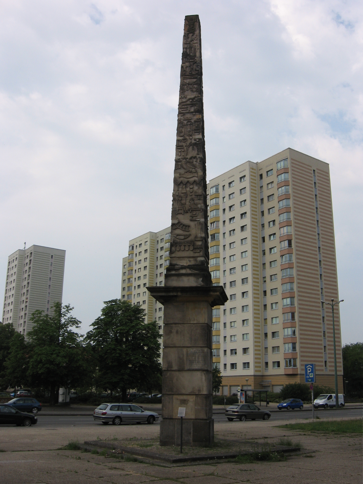 Obelisk Potsdam (Breite Strasse)